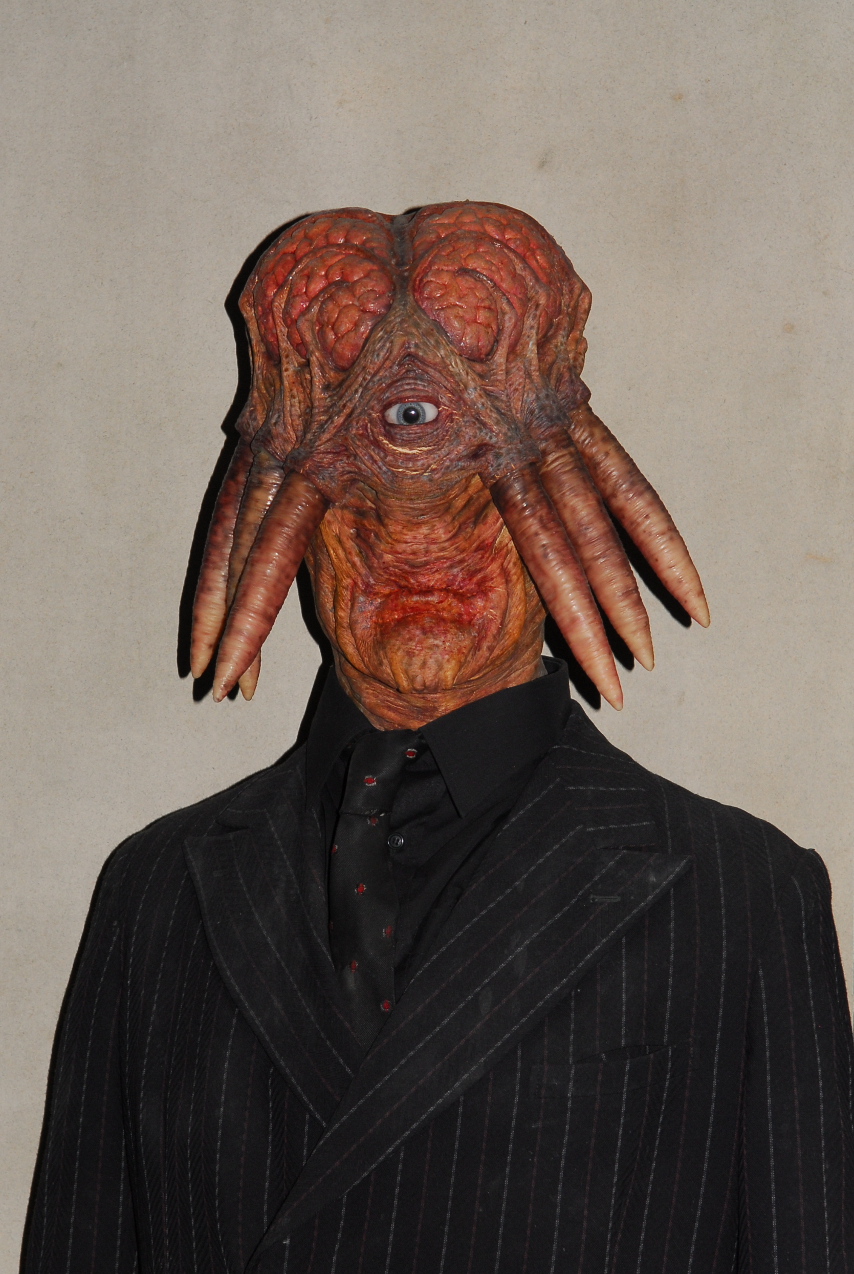 DSC_0367 Doctor Who Experience